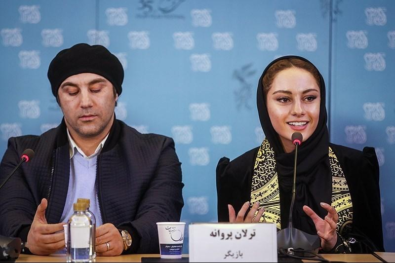 Media conference of Ferrari (Iranian film)